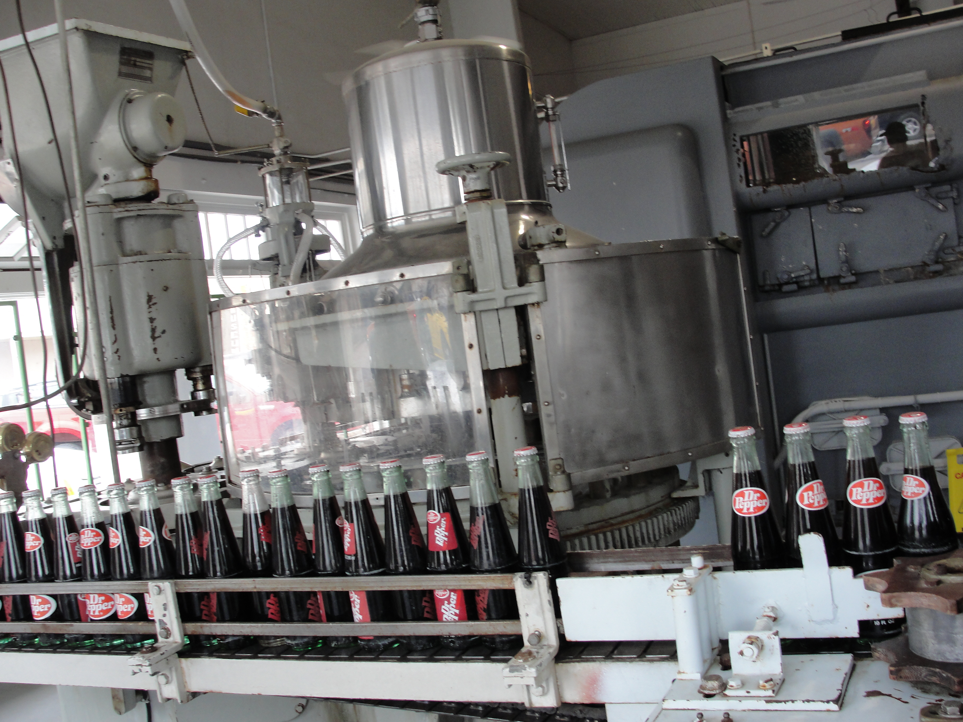 These refillable 10oz bottles are what's produced at the Dublin Dr Pepper facility. The only Dr Pepper that is produced in Dublin Tx, is the 6.5oz and 10oz refillable glass bottles. Dublin, Tx, United States